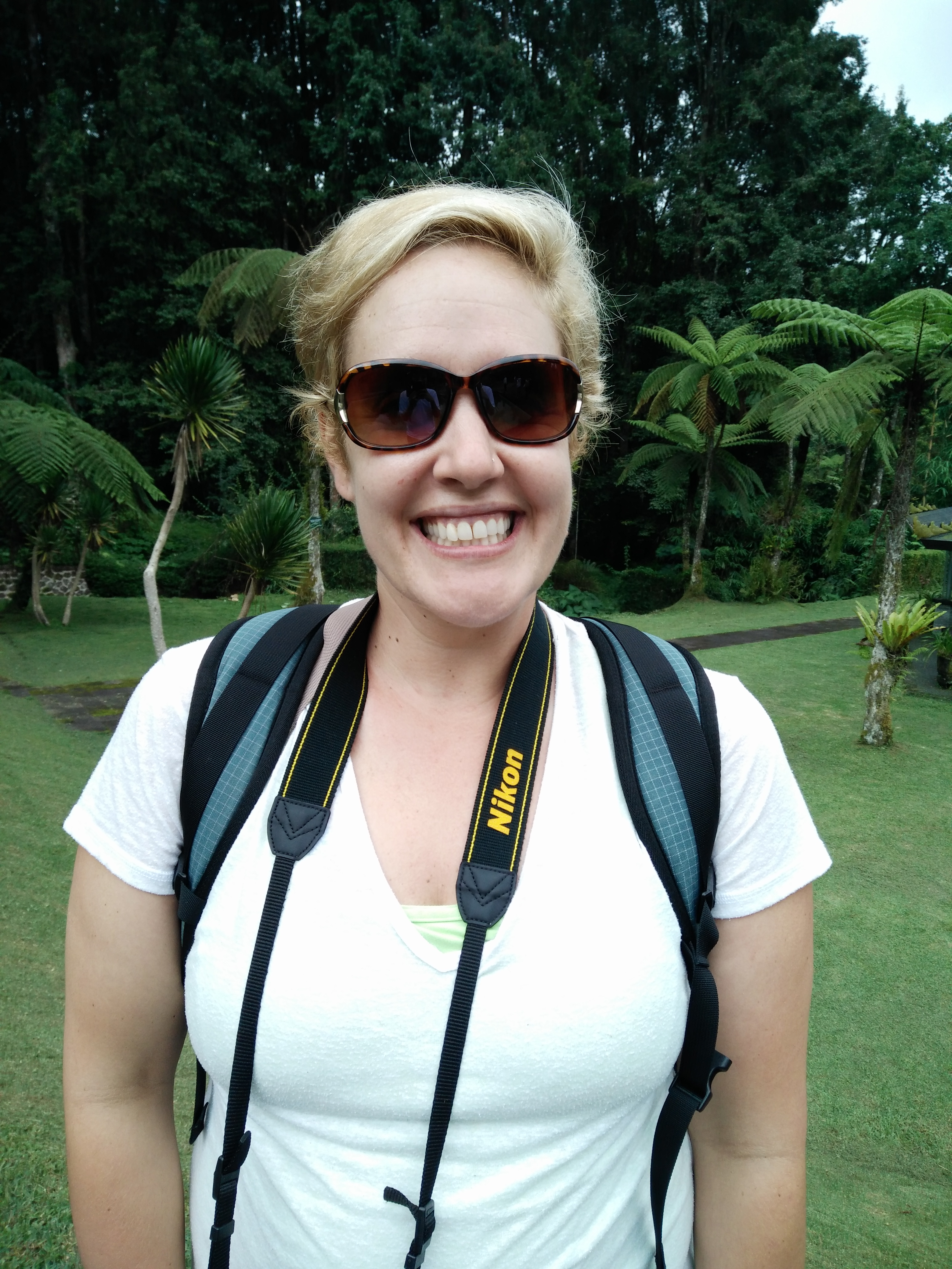 A front view of American woman photographed at Kebun Raya Bali in Candikuning, Baturiti, Tabanan, Bali, Indonesia.